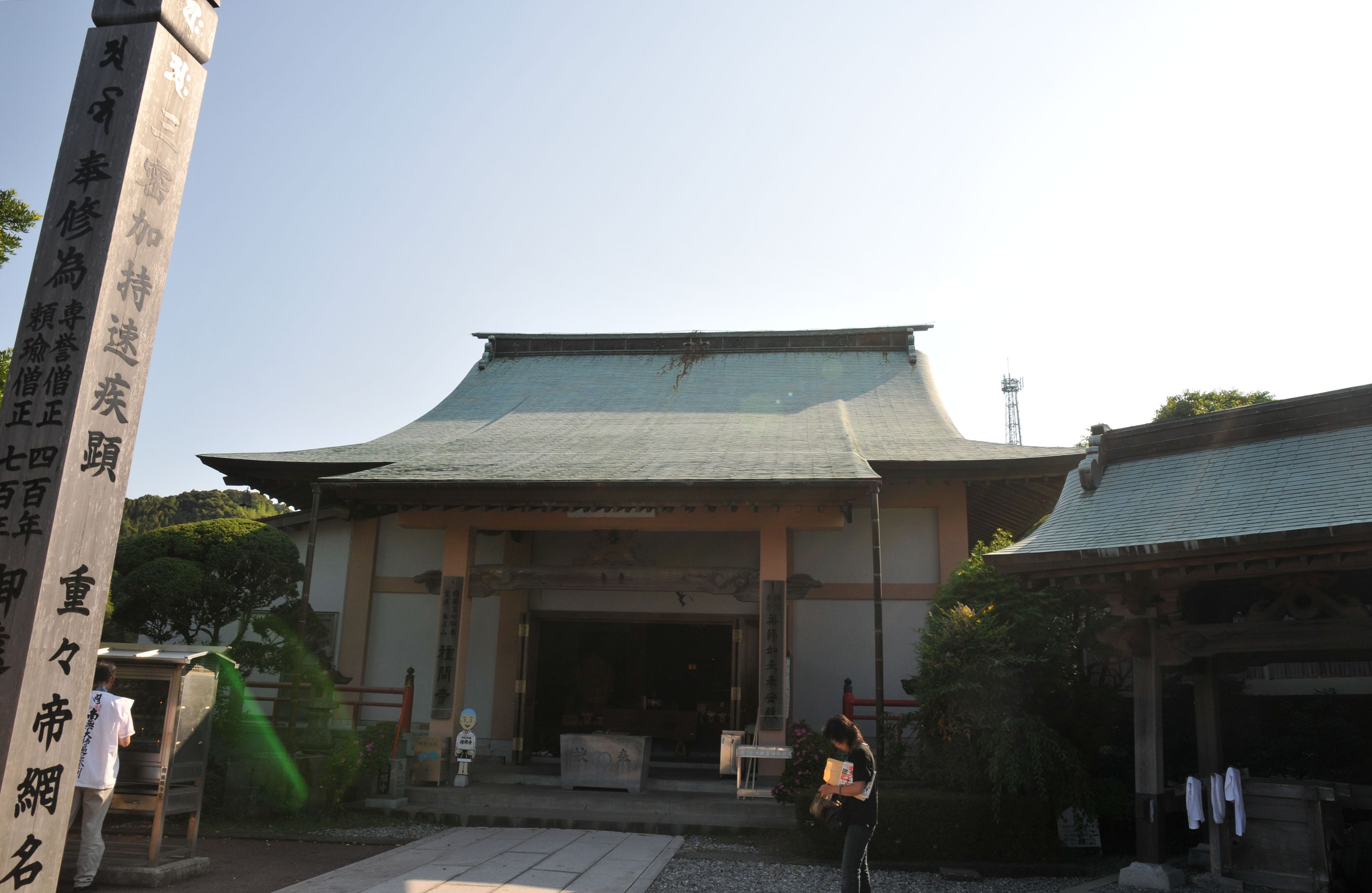 Main temple, Tanema-ji